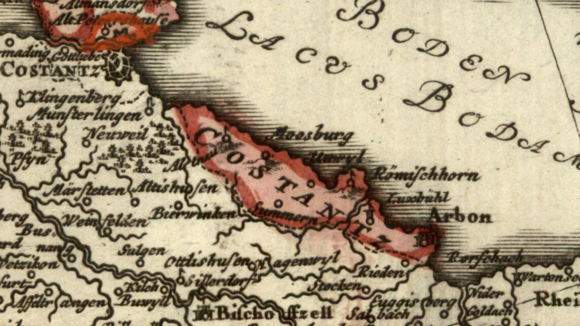 Detail cropped out of a mid-18th century map showing (in pink) the territory on the southern shore of Lake Constance, including the town of Arbon, that belonged to the prince-bishop of Constance. The prince-bishop was also lord of Bischofszell (lower part of map) although effective power over that town had passed to the Swiss Confederacy and the canton of Zurich. Cropped out of a map centered on the Swabian Circle titled Circvli Sveviae Mappa designed by Johann Matthias Hase and published by Homann Heirs (Homann Erben) in 1742.